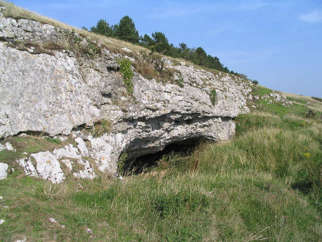 Cave entrance, Gop Hill. This cave is just south of the cairn at the top of Gop hill. It was used as a burial place in neolithic times. The cave has a spacious interior and links to a smaller cave via a small passage which you have to crawl through - not very pleasant as there are rocks on the floor and tiny animal droppings! I would also recommend a hard hat as it doesn't look very safe.